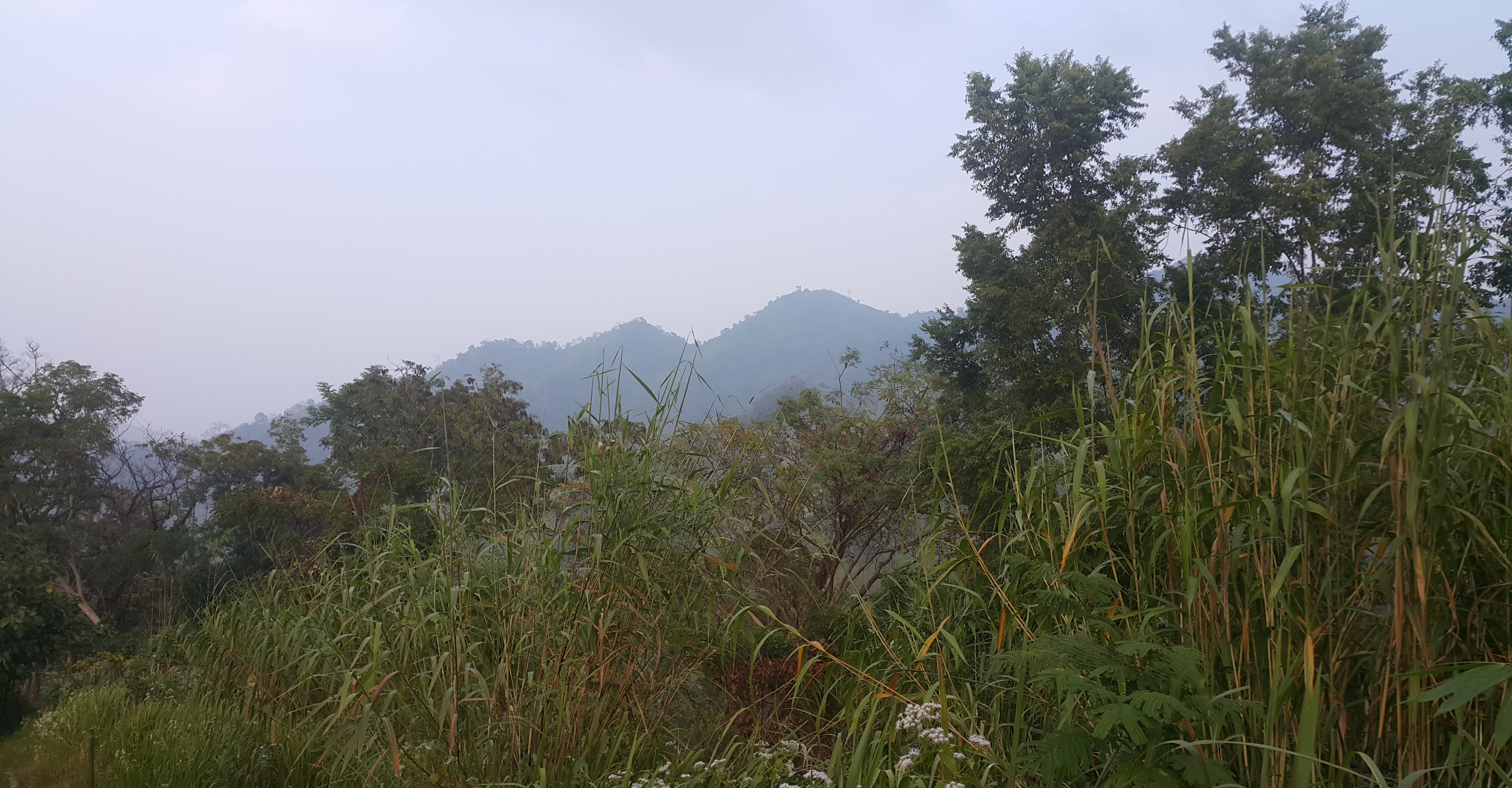 A view from Roni Para (Fayang Bidang Para ) on the way to Sippi